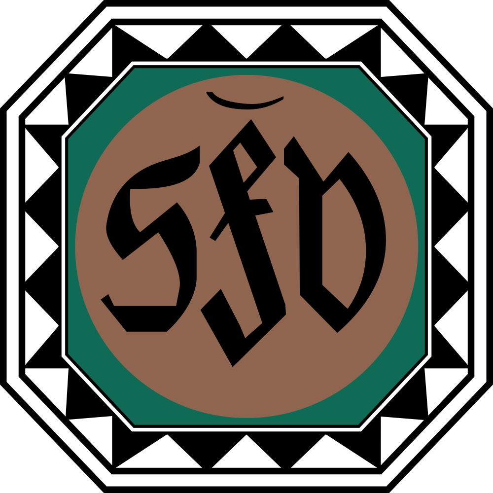 Logo of Süddeutscher Fußball-Verband from 1914 - 1921